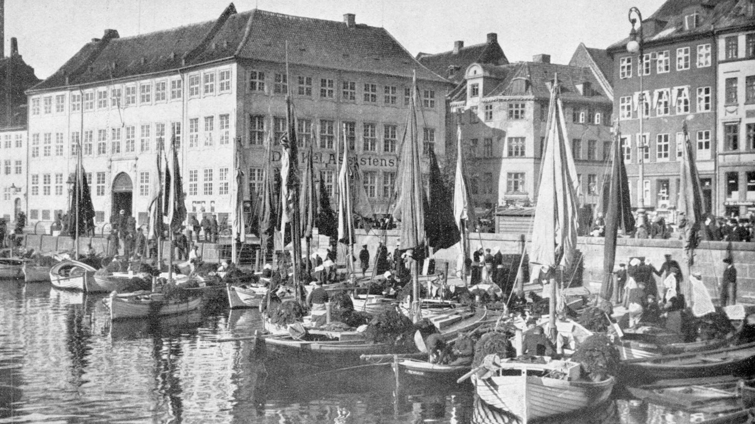 Assistenshuset in Copenhagen, Denmark